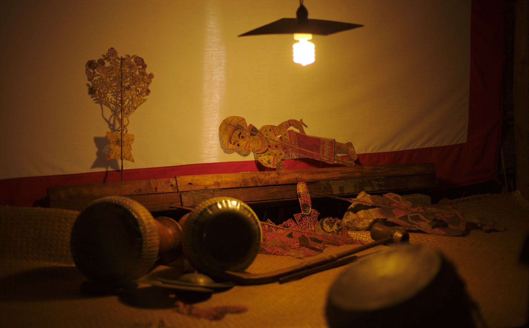 View of a traditional 'Nang Talung' shadow puppetry stage in southern Thailand, as installed in the Institute for Southern Thai Studies, near Songkhla.